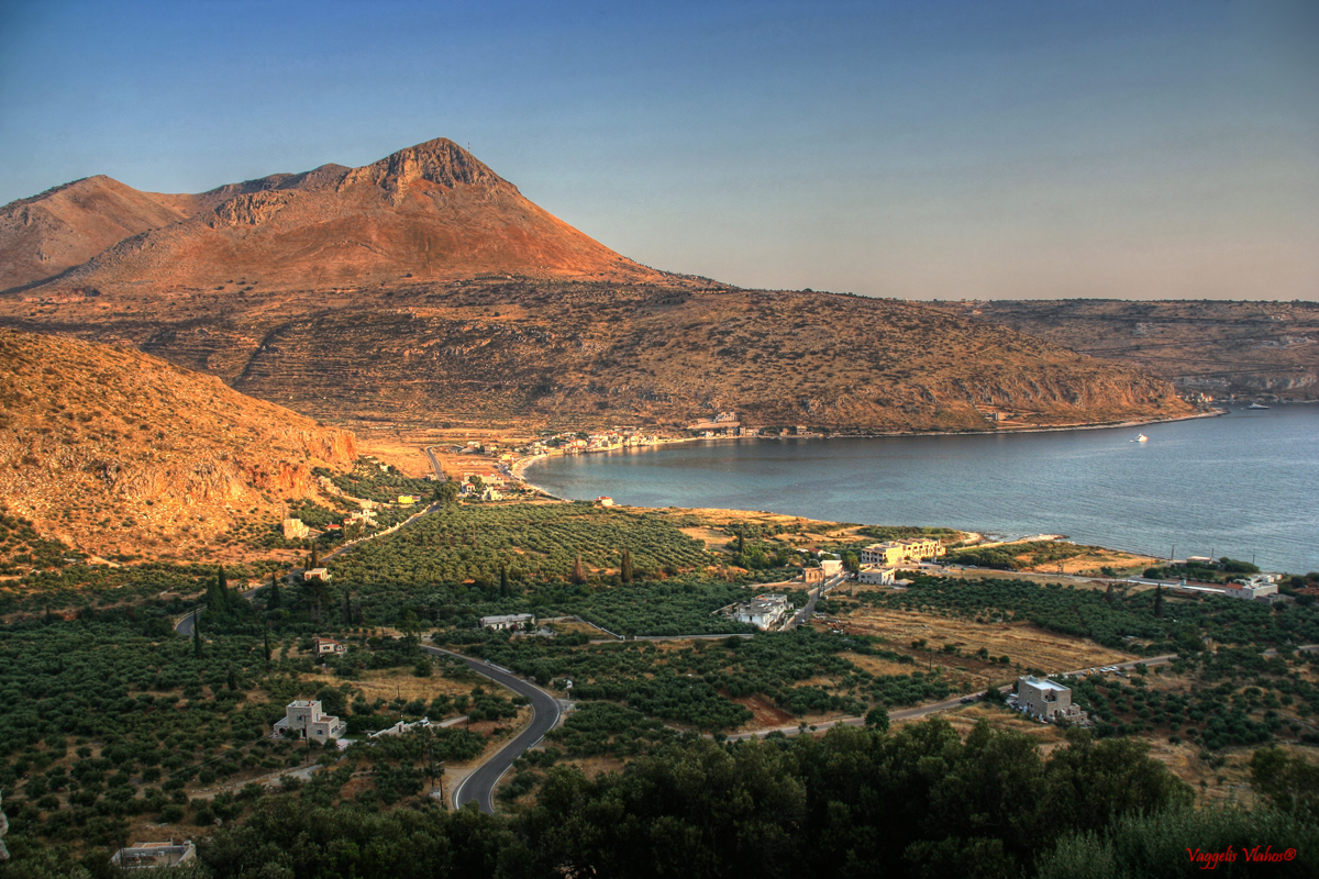 Mani - Hellas - Greece